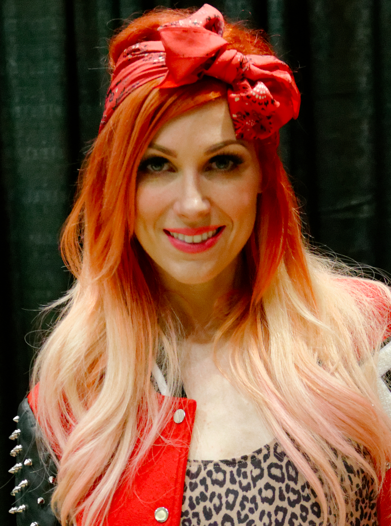 Bonnie McKee performing live at The Citadel Outlets' 12th Annual Tree Lighting Concert in Commerce CA on November 9th, 2013.